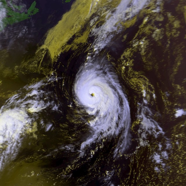 Hurricane Bonnie on September 21 at approximately 1823 UTC. This image was produced from data from NOAA-11, provided by NOAA.